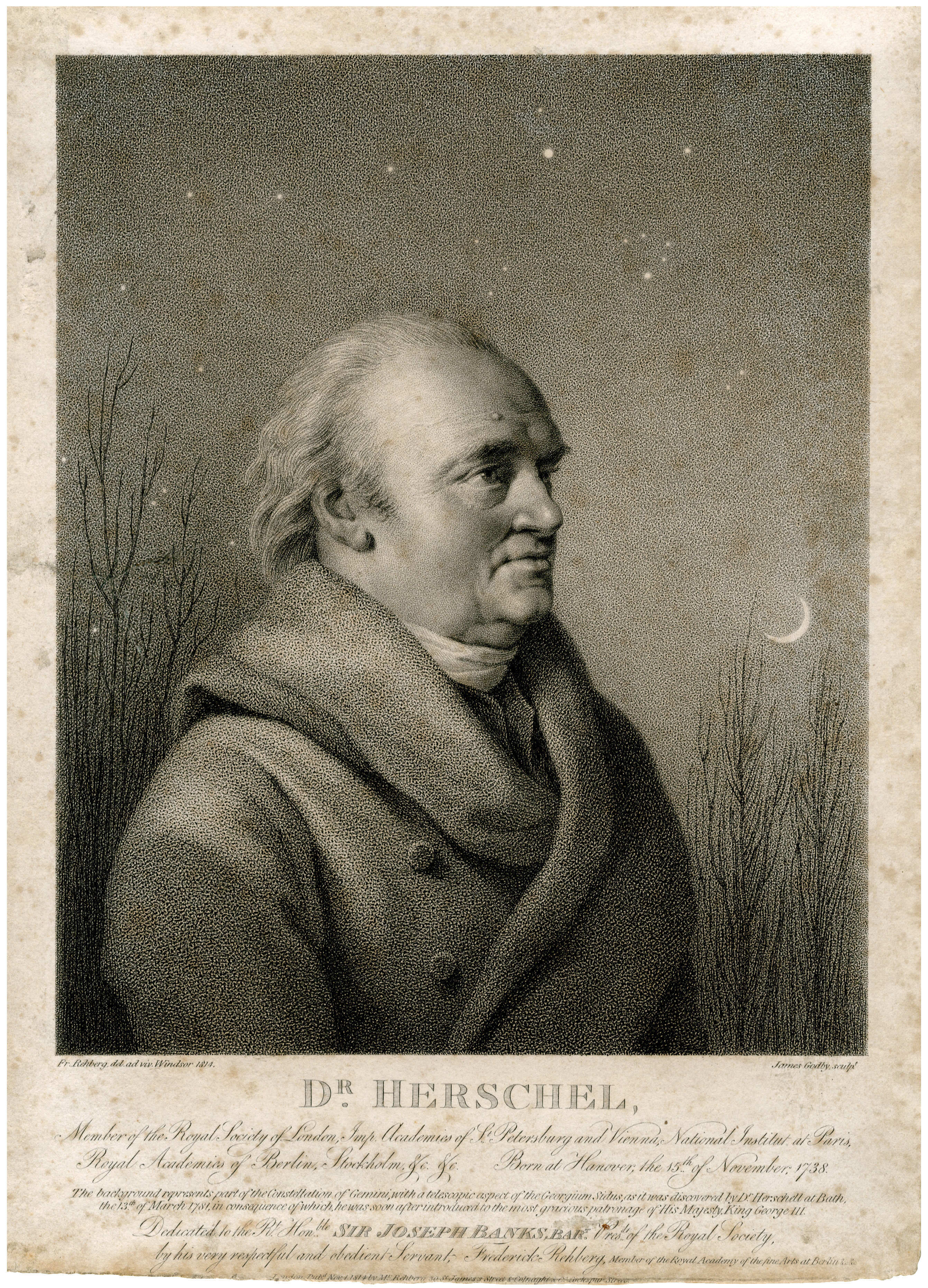 Engraving by James Godby of a portrait of astronomer William Herschel, showing him against the background of Gemini where he discovered the planet Uranus in 1781.